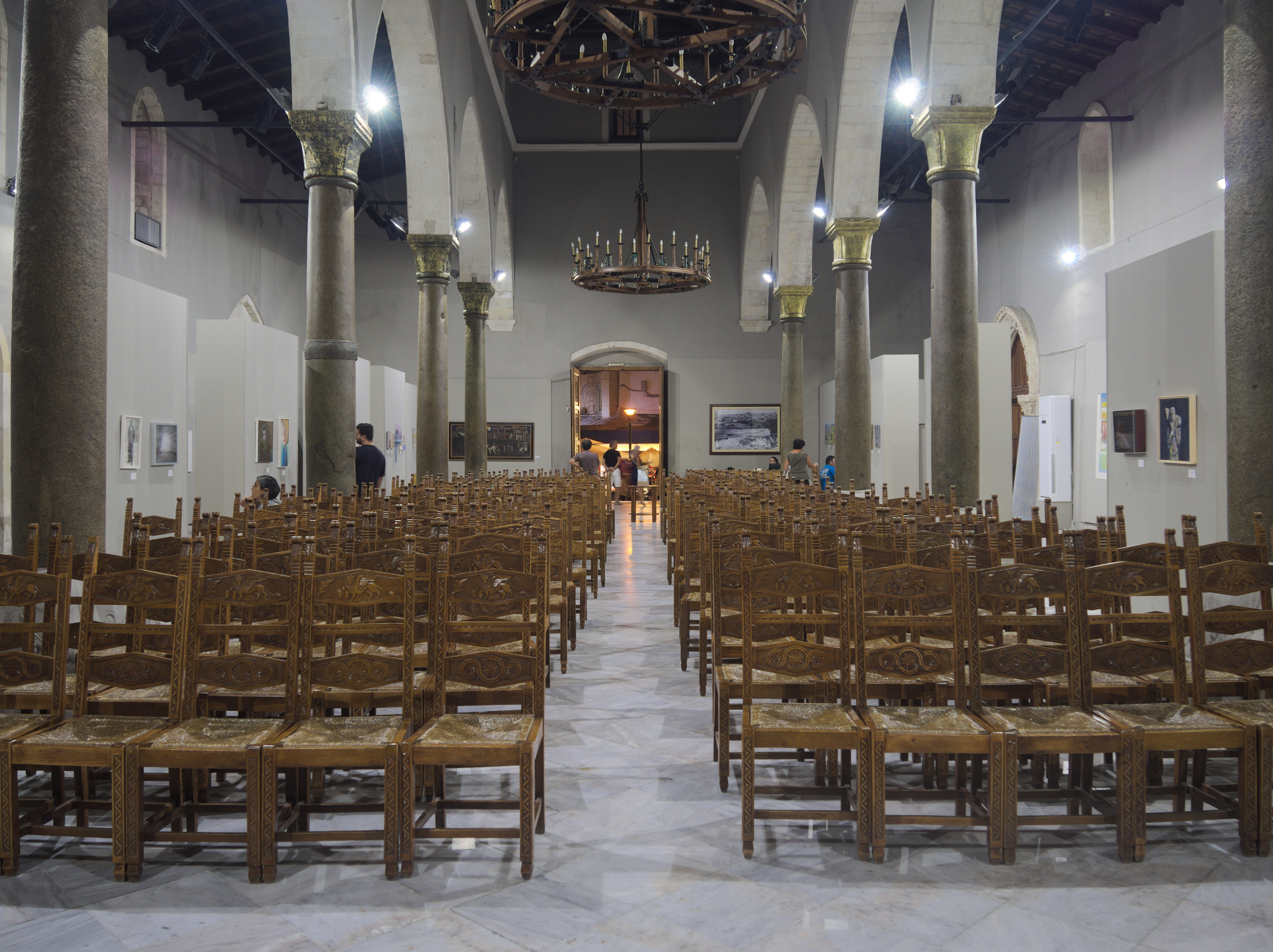 The interior of Saint Mark basilica, Heraklion. It serves as an art gallery.